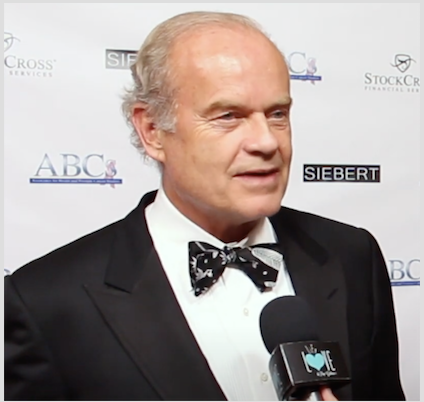 Kelsey Grammer interviewed by Life, Love, & Pop in 2018